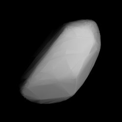 3D convex shape model of 1789 Dobrovolsky, computed using light curve inversion techniques. J. Hanuš, J. Ďurech, M. Brož, B. D. Warner (June 2011). "A study of asteroid pole-latitude distribution based on an extended set of shape models derived by the lightcurve inversion method". Astronomy and Astrophysics 530: A134. ISSN 0004-6361. arXiv